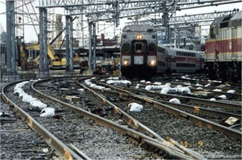 Ground Freezing System in Operation while Commuter Trains Run Through the Big Dig.